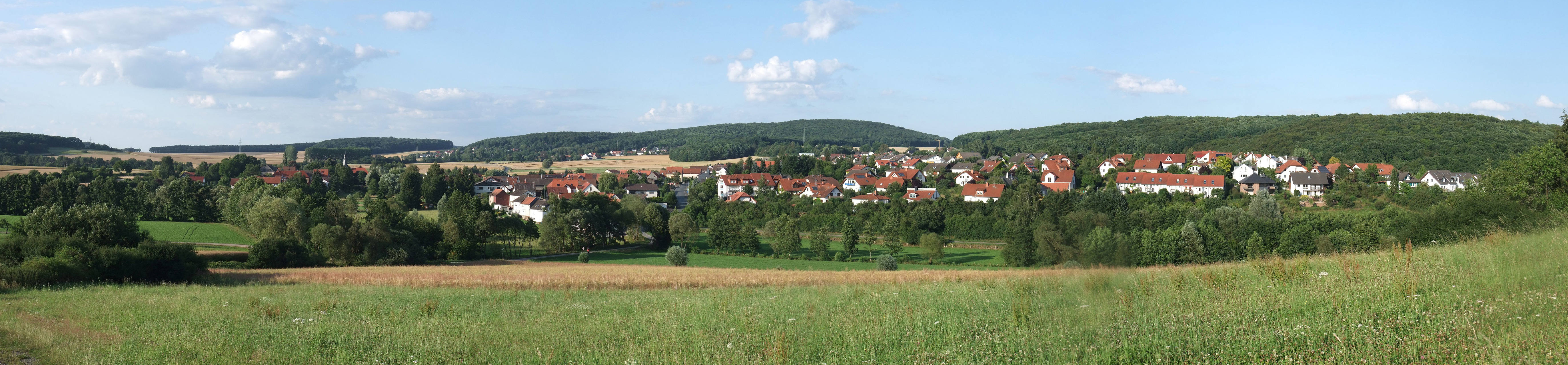 The village of Marburg-Elnhausen from the Southwest